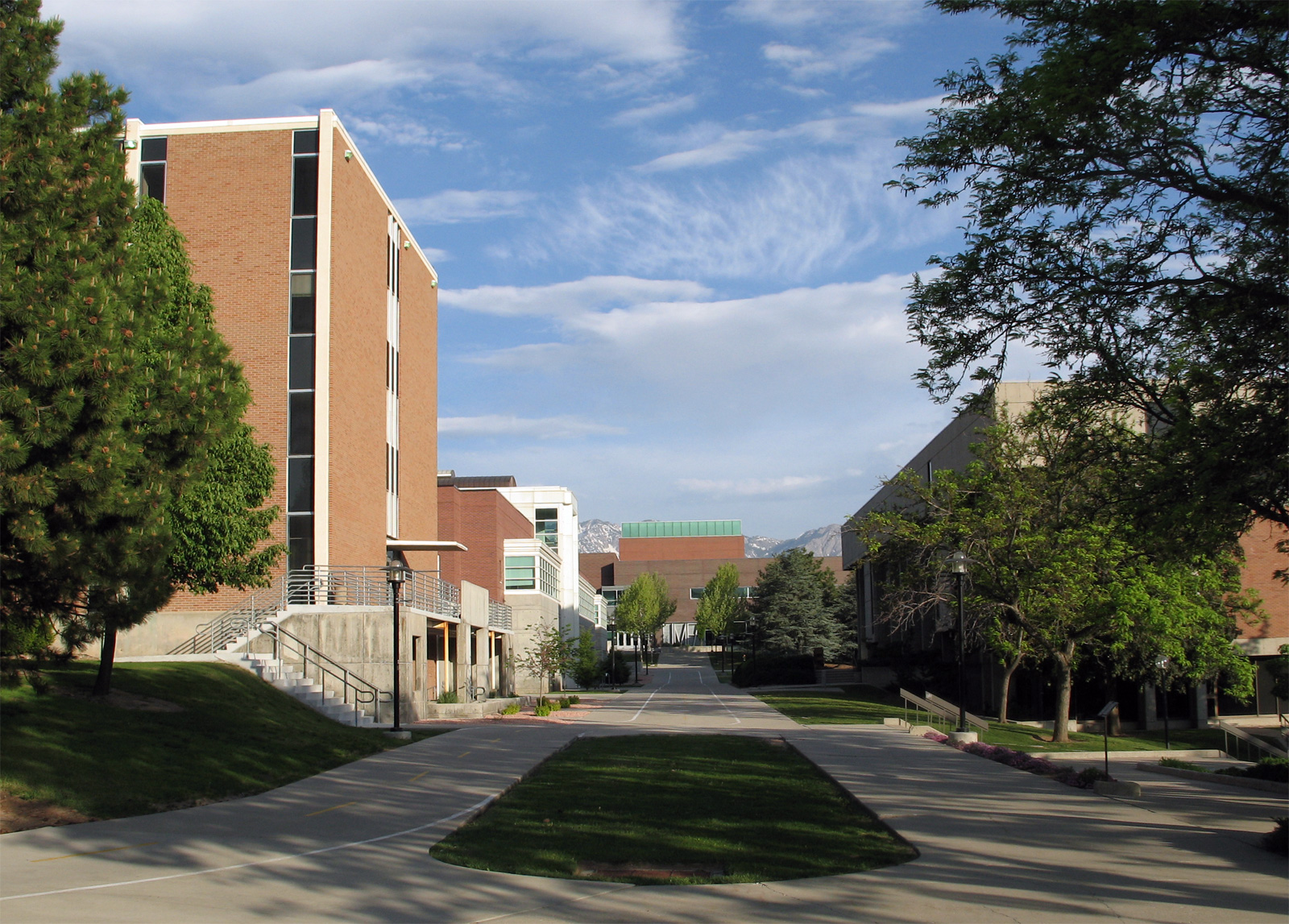 A central walkway at the University of Utah campus in Salt Lake City, Utah. Business buildings on the left, architecture building on the right, Utah Museum of Fine Arts in the distance. You can see a bike lane painted on the sidewalk.